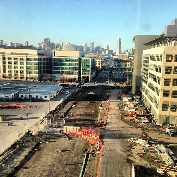 UCSF! (mission bay site construction)